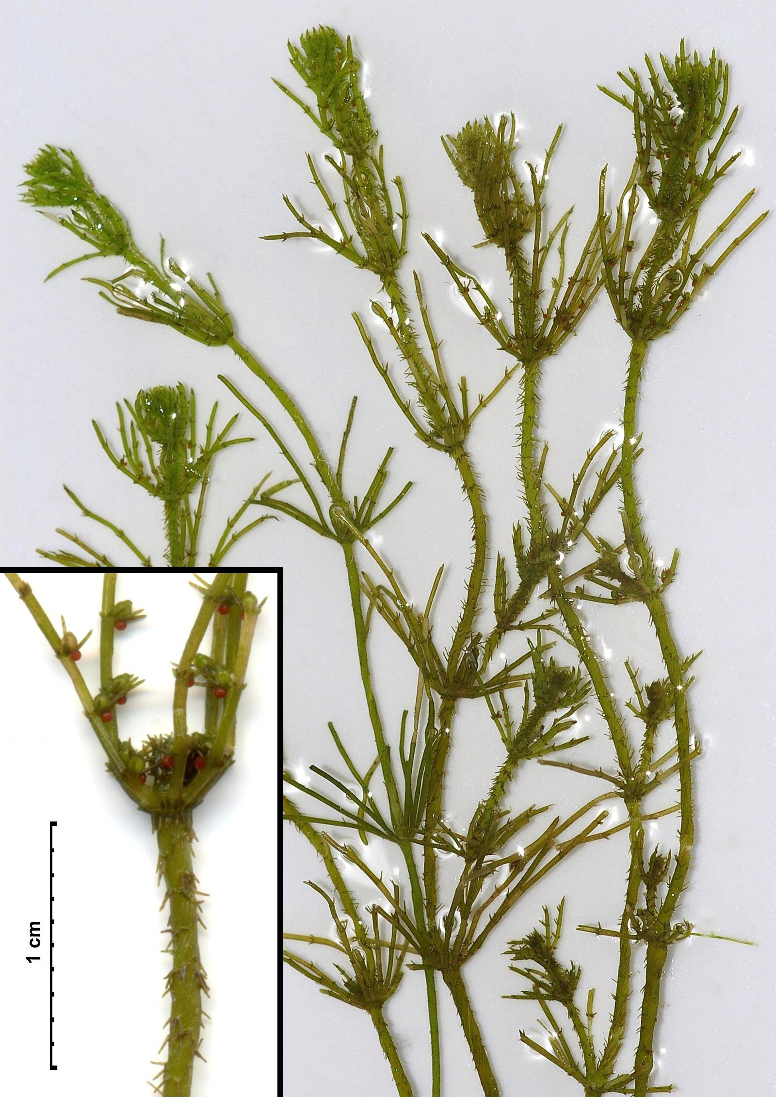 The stoneworts alga Chara hispida, plants and details. Thanks to Dr Hans-Christoph Vahle and Professor Dr Hendrik Schubert for confirming the determination.